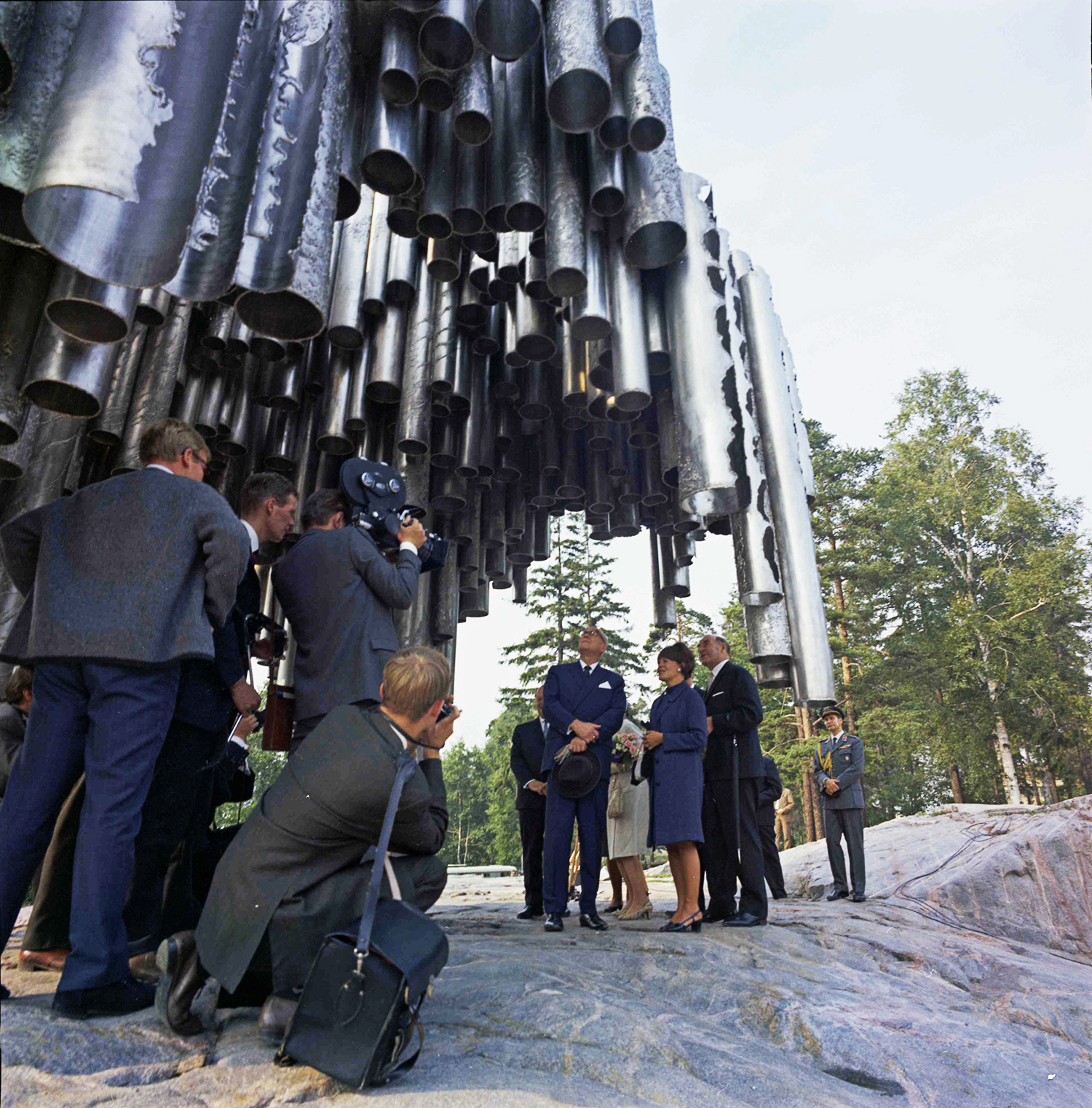 Photograph of the unveiling of the Sibelius Monument in Helsinki, here President Urho Kekkonen with the artist Eila Hiltunen.